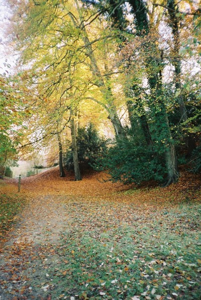 Fultness Wood. Beech woodland in autumnal colours